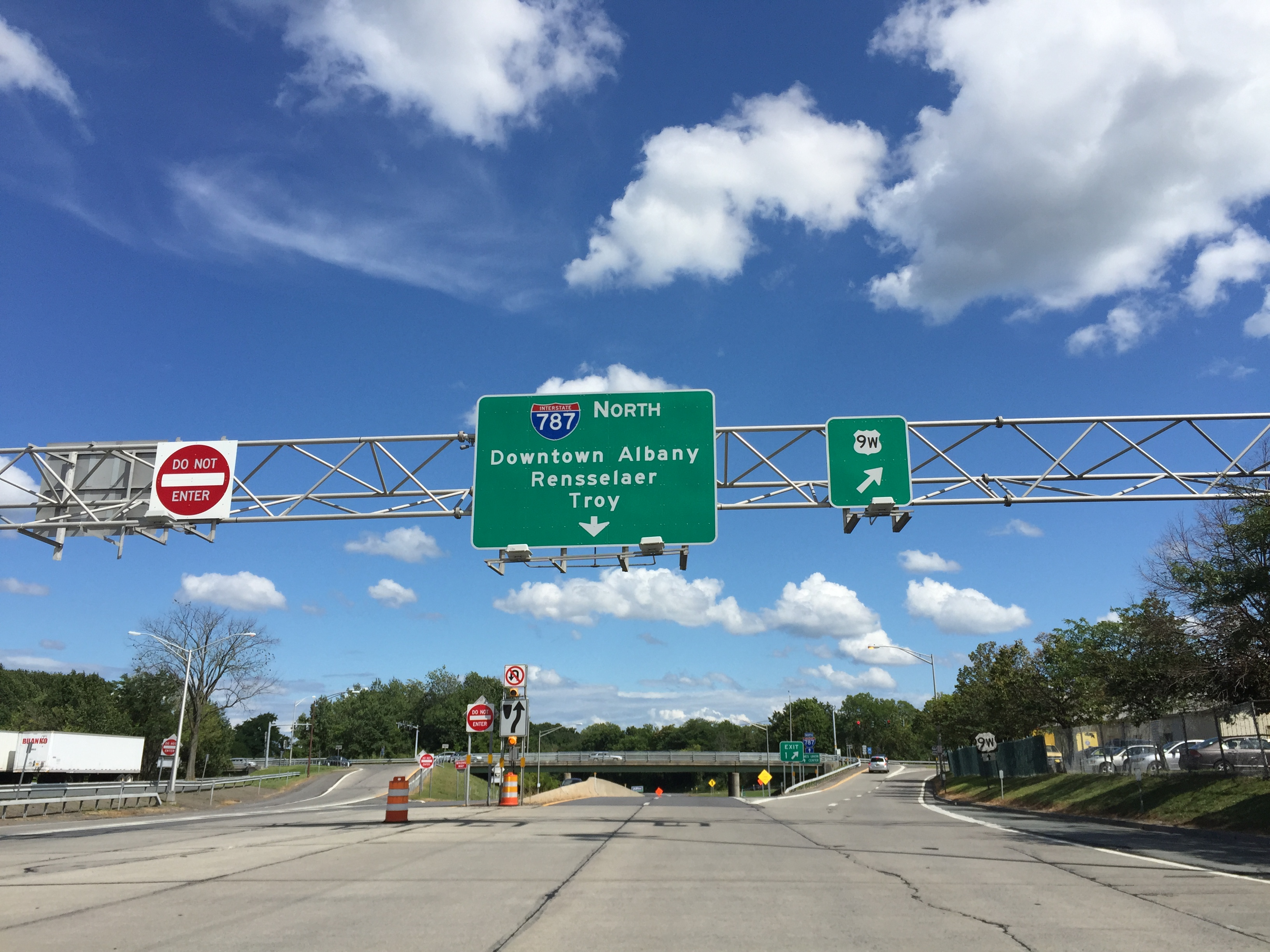 View north from the south end of Interstate 787 at the junction with U.S. Route 9W in Albany, New York